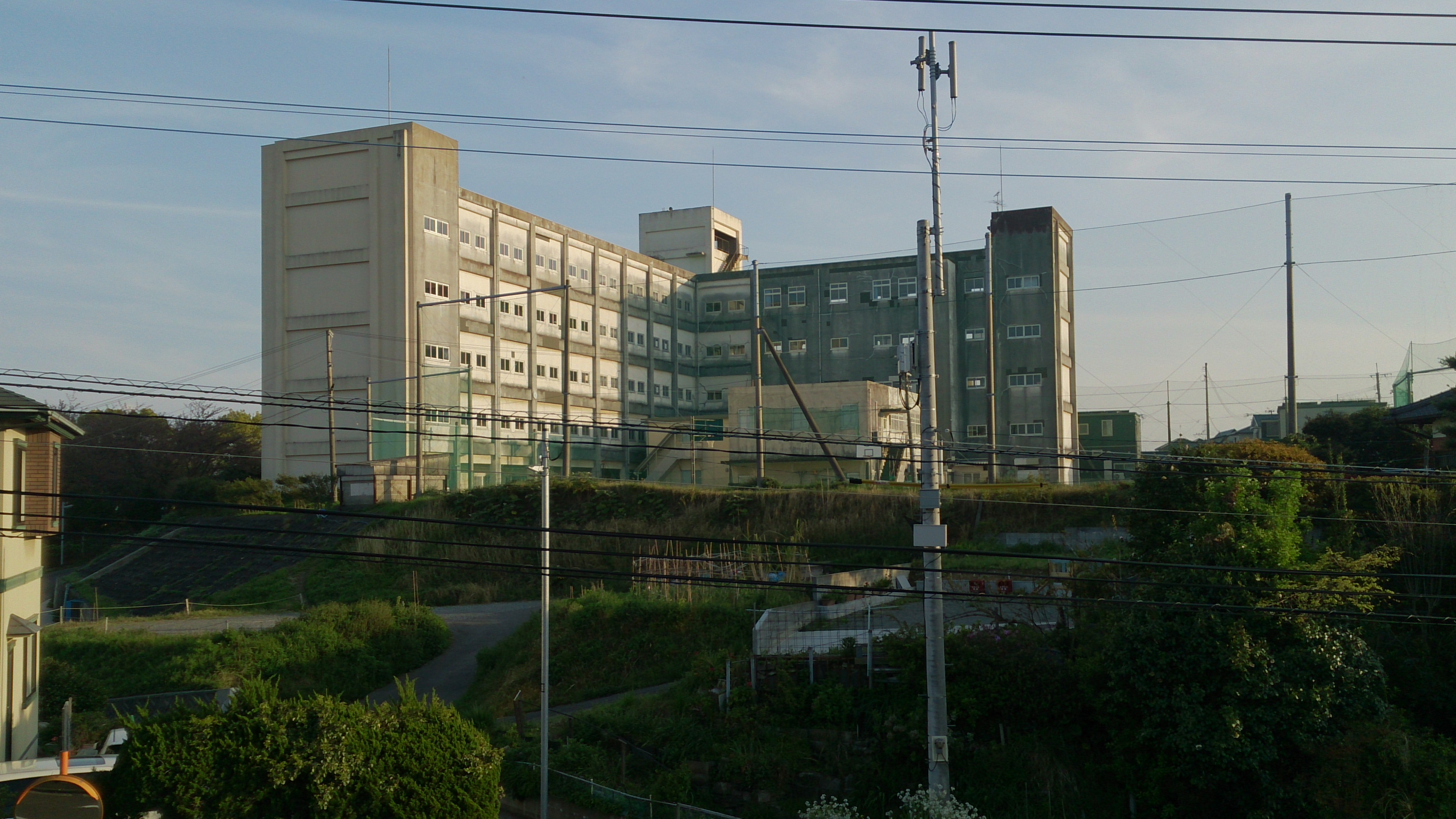 Tachibana High School Building. (from North)